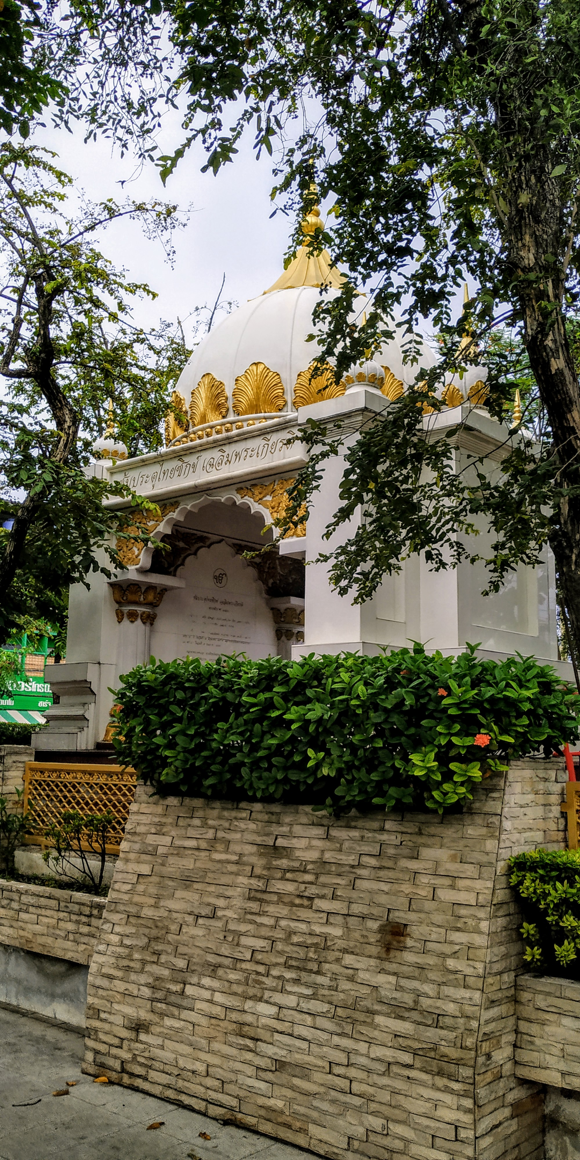 Thai Sikh gate honoring H.M. the king of Thailand at Lat Yaa intersection